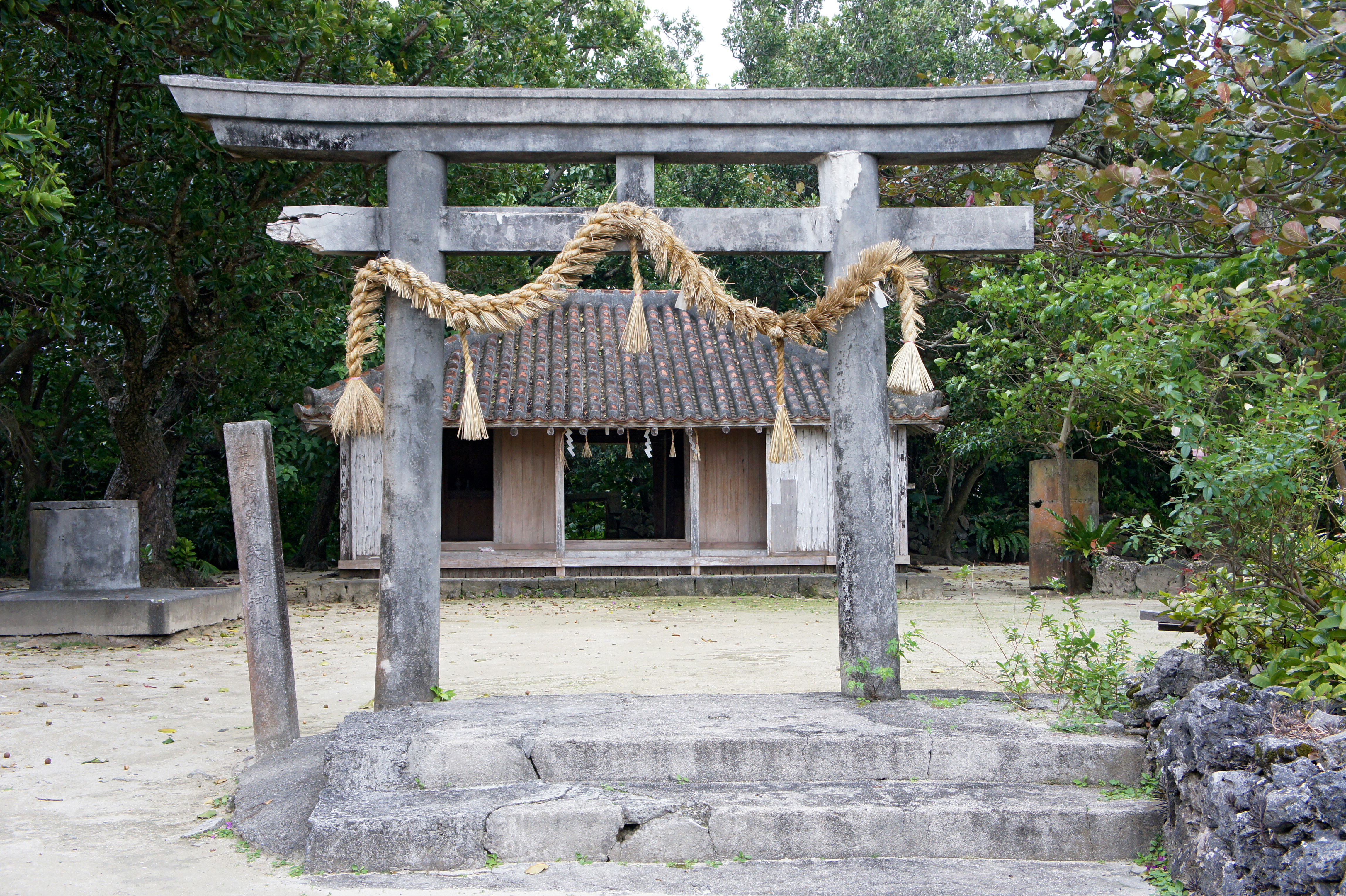 Misaki-On is a sacred site in Ishigaki Island, Ishigaki City, Okinawa Prefecture, Japan.